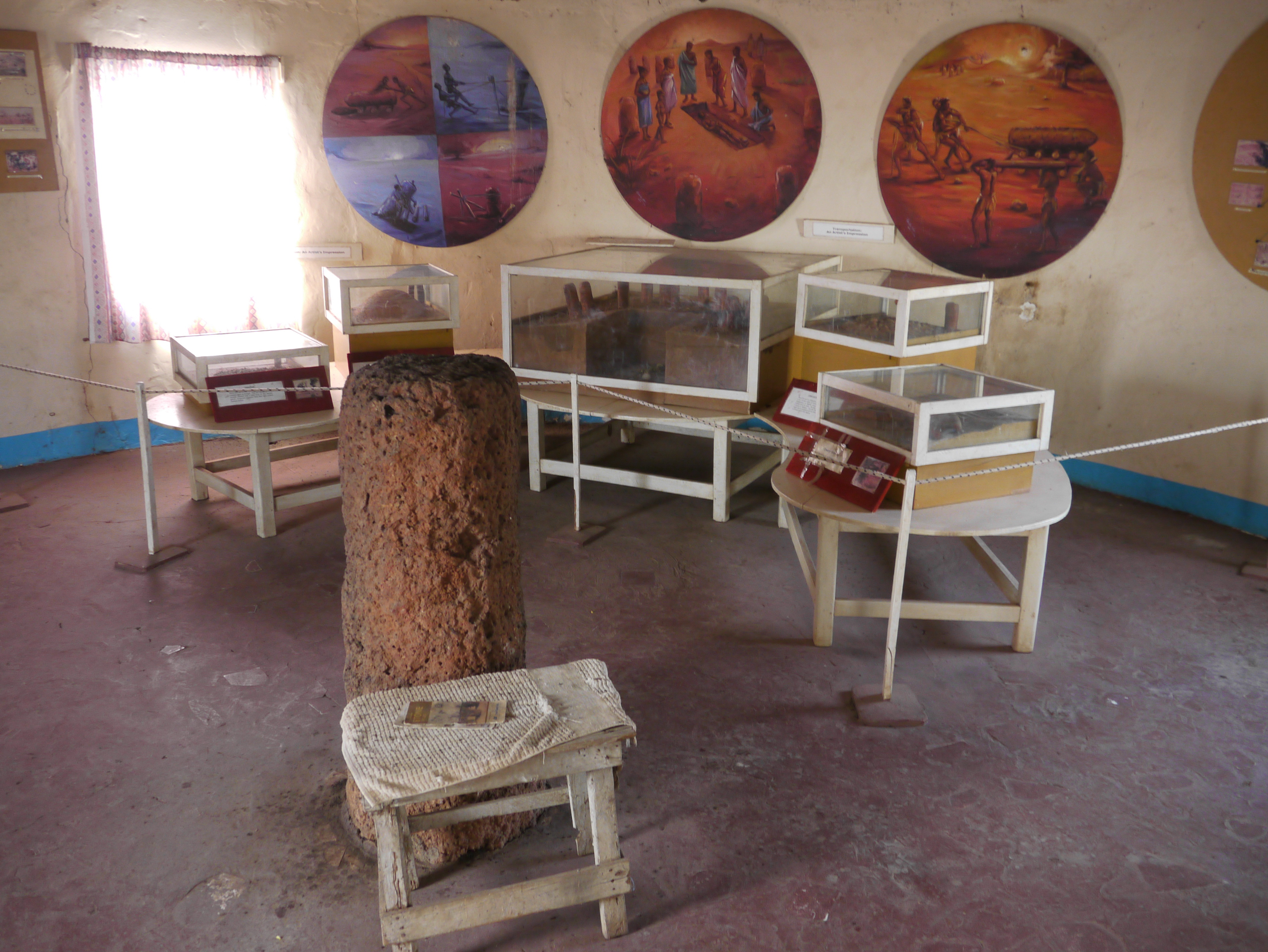 GambiaGeorgeTown051